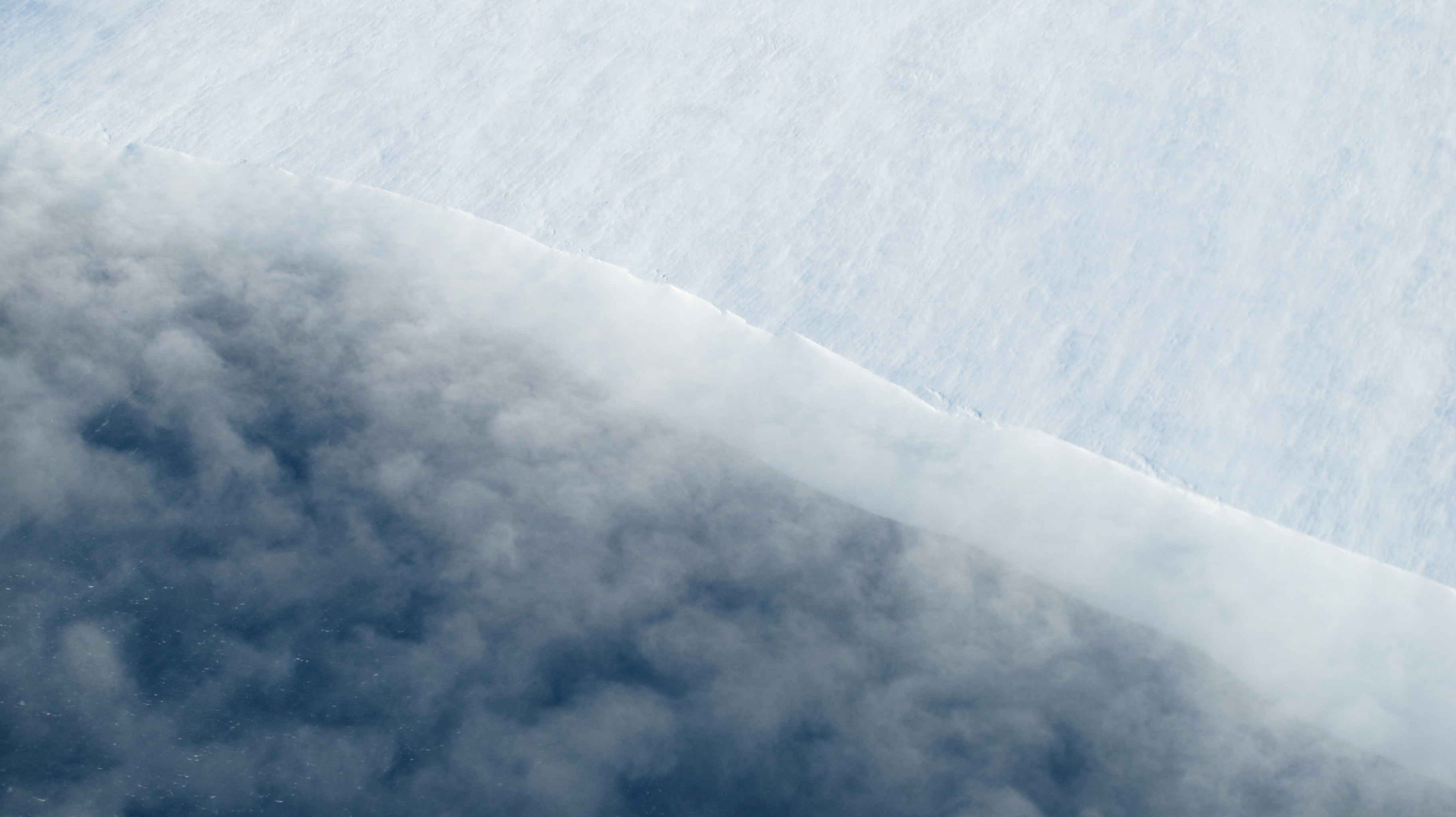 Blowing snow coming off the calving front of the Thwaites Ice Shelf seen from the IceBridge DC-8 on Oct. 16, 2012. Credit: NASA / James Yungel NASA's Operation IceBridge is an airborne science mission to study Earth's polar ice. For more information about IceBridge, visit